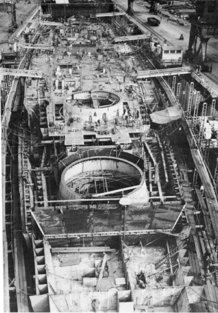 The partially completed deck of the USS_Kentucky (BB-66), never completed and subsquently scrapped. The barbettes for the turrets are prominent. Photo taken February 4, 1946.